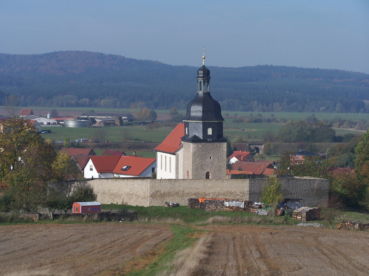 The church in Ettenhausen/Suhl with wall.